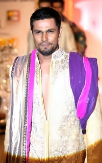 Randeep Hooda walks for Nivedita Saboo at Pune Fashion Week